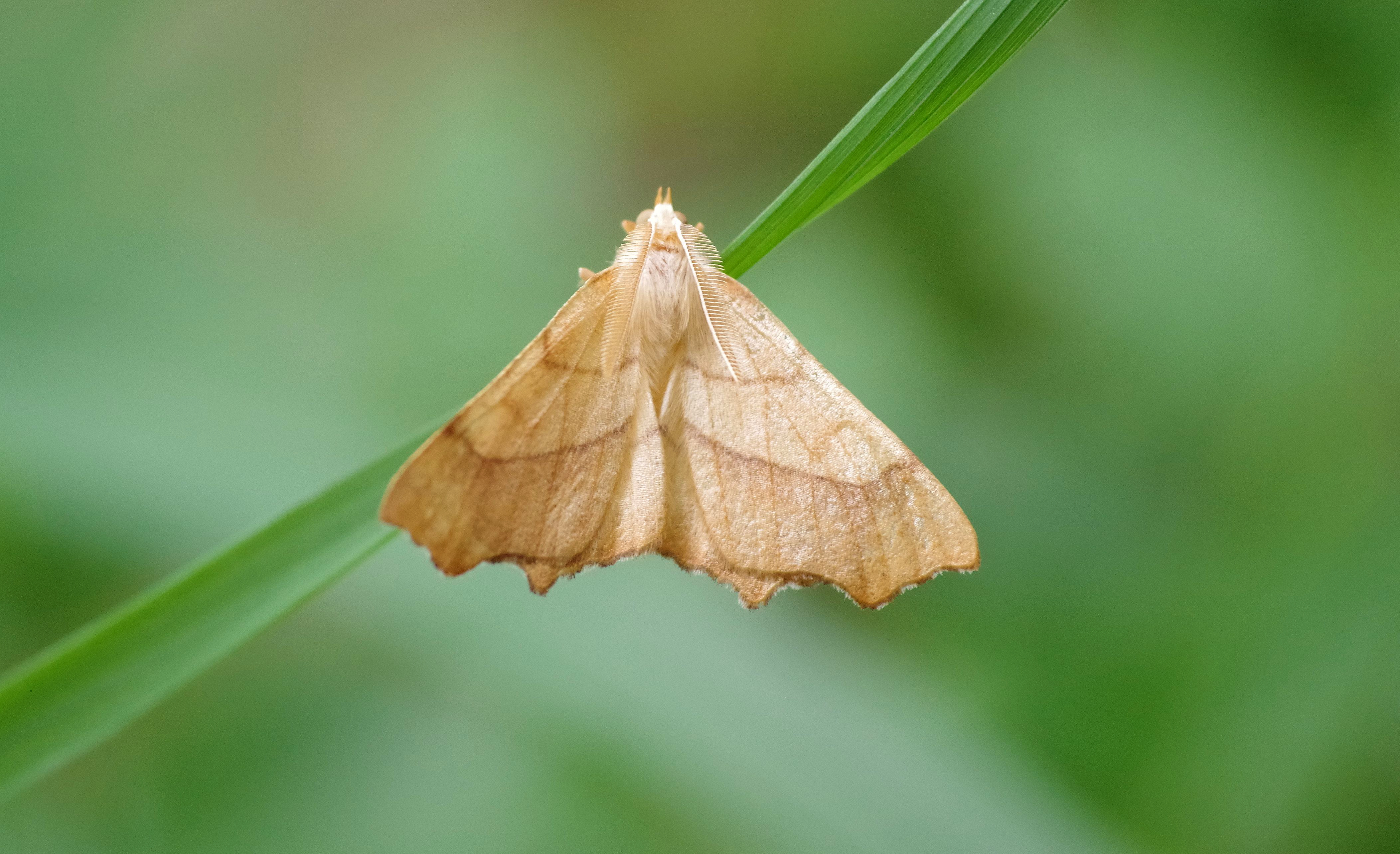 Moth Ennomos quercinaria